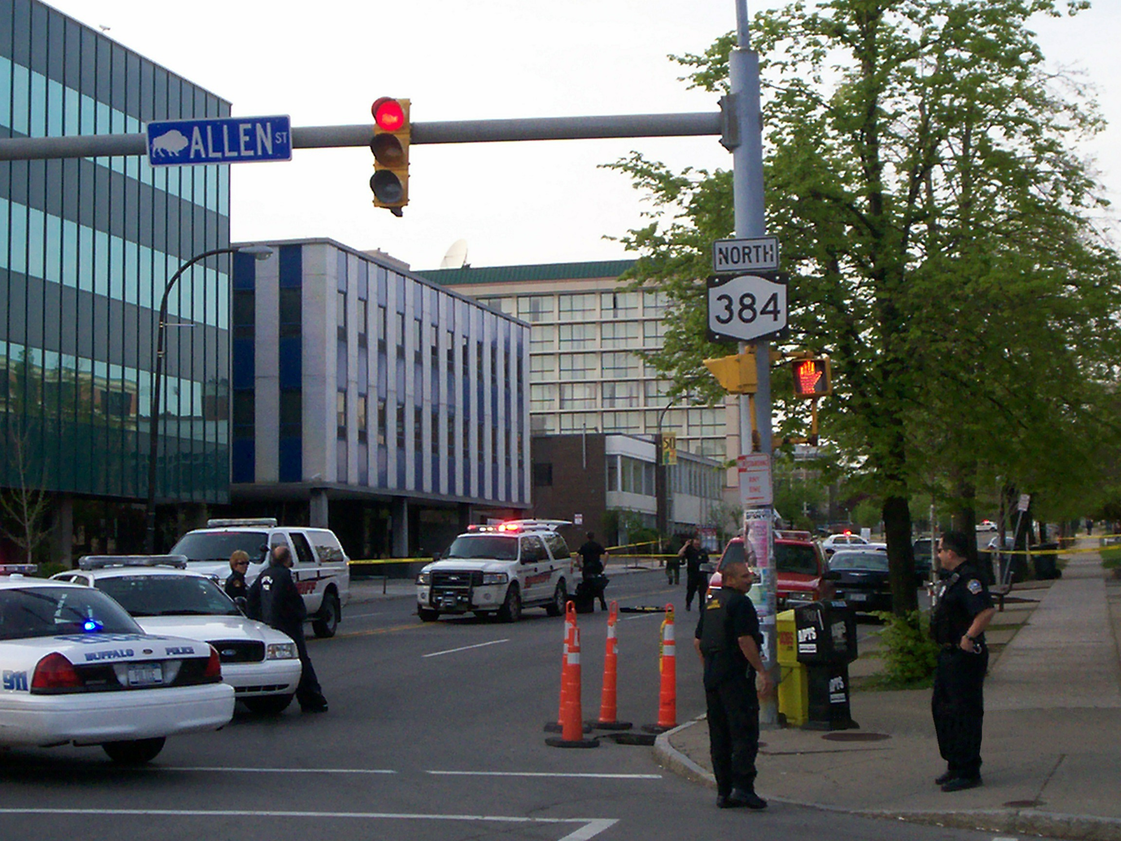 An Erie County Bomb Squad officer enters the New York Health Department office building in Buffalo, New York after callers stated a suspicious person deposited a suspicious package into a UPS drop box.